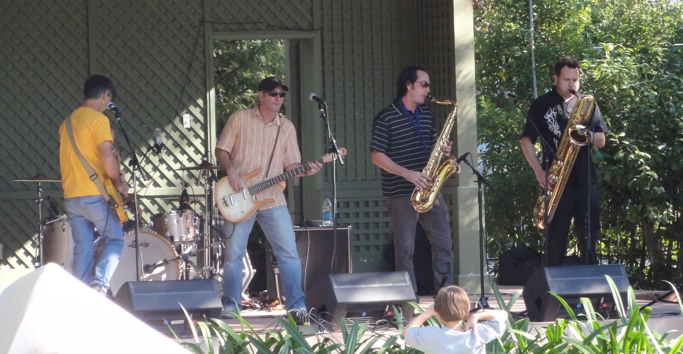 "Creole Stringbeans" band at City Park, New Orleans